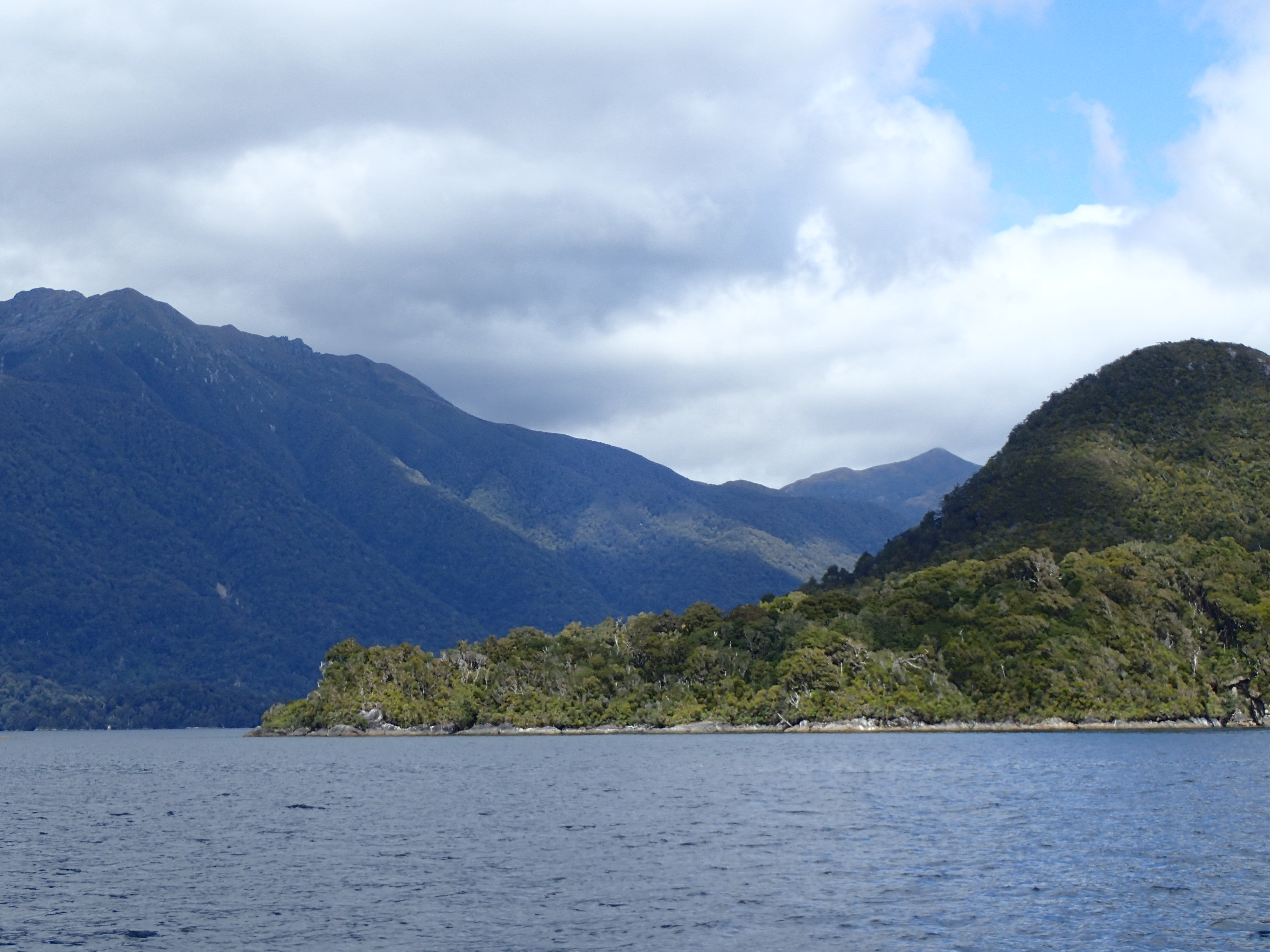 Eastern End Of Indian Island & location of the Maori Family in the drawing/engraving titled "Māori at Dusky Sound" by William Hodges - made during a visit here by Captain James Cook on his second voyage in the 1770s